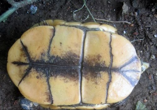 Cuora yunnanensis Female by Ting Zhou / Torsten Blanck